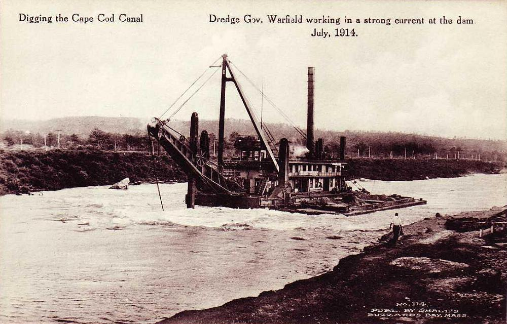 Digging the Cape Cod Canal -- dredge Gov. Warfield working in a strong current at the dam, July 1914; from a 1914 postcard published by Small's, Buzzards Bay, Massachusetts.